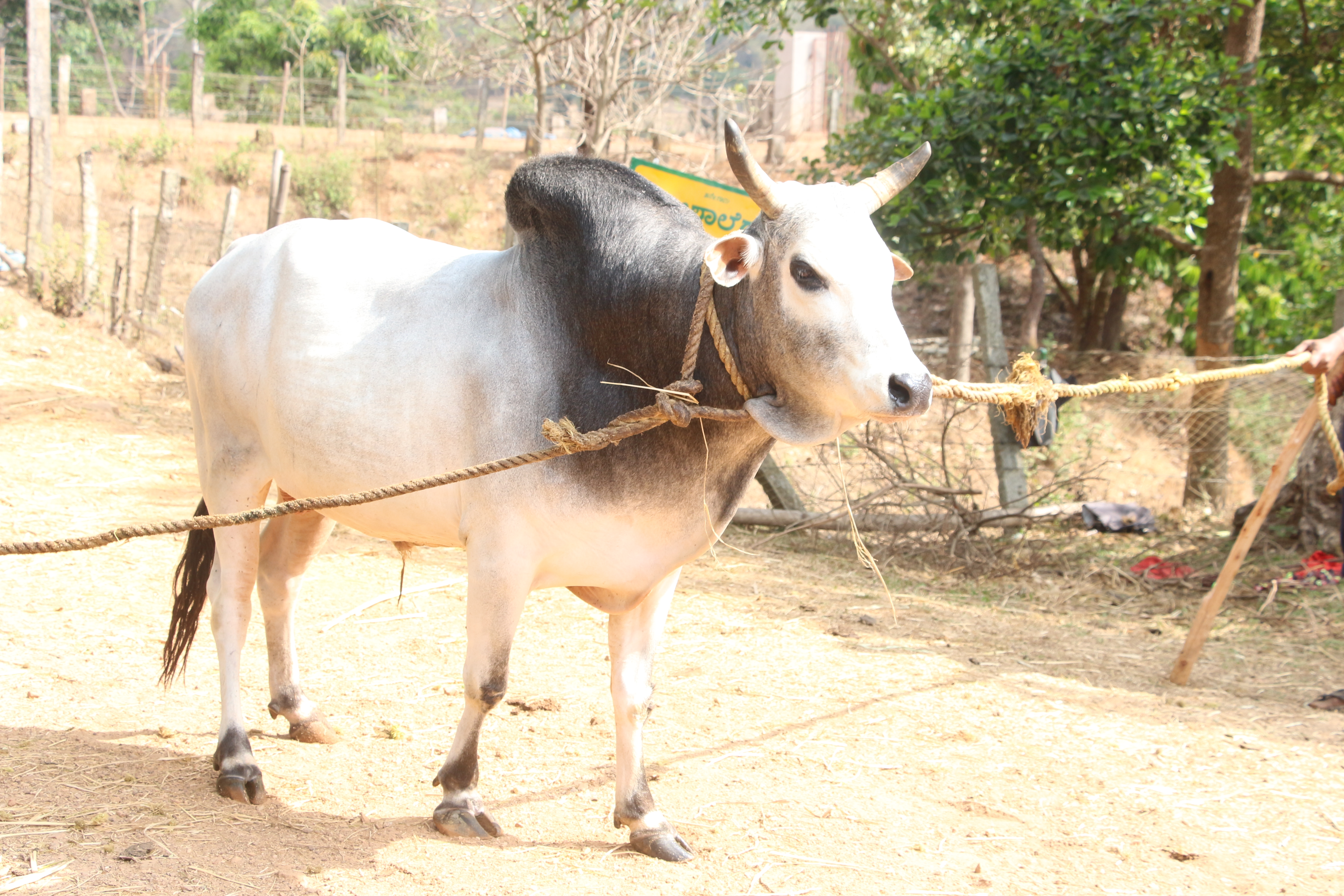 Indian cow breed Kerigar ಕನ್ನಡ: ಭಾರತೀಯ ಗೋತಳಿ ಕೇರಿಗರ್